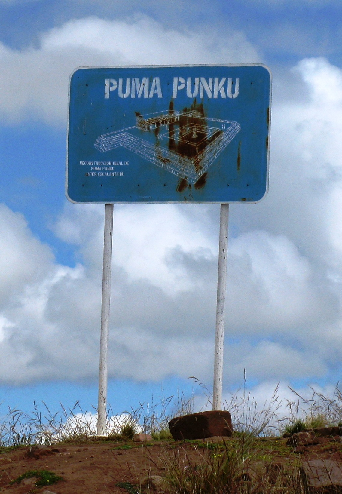 Puma Punku